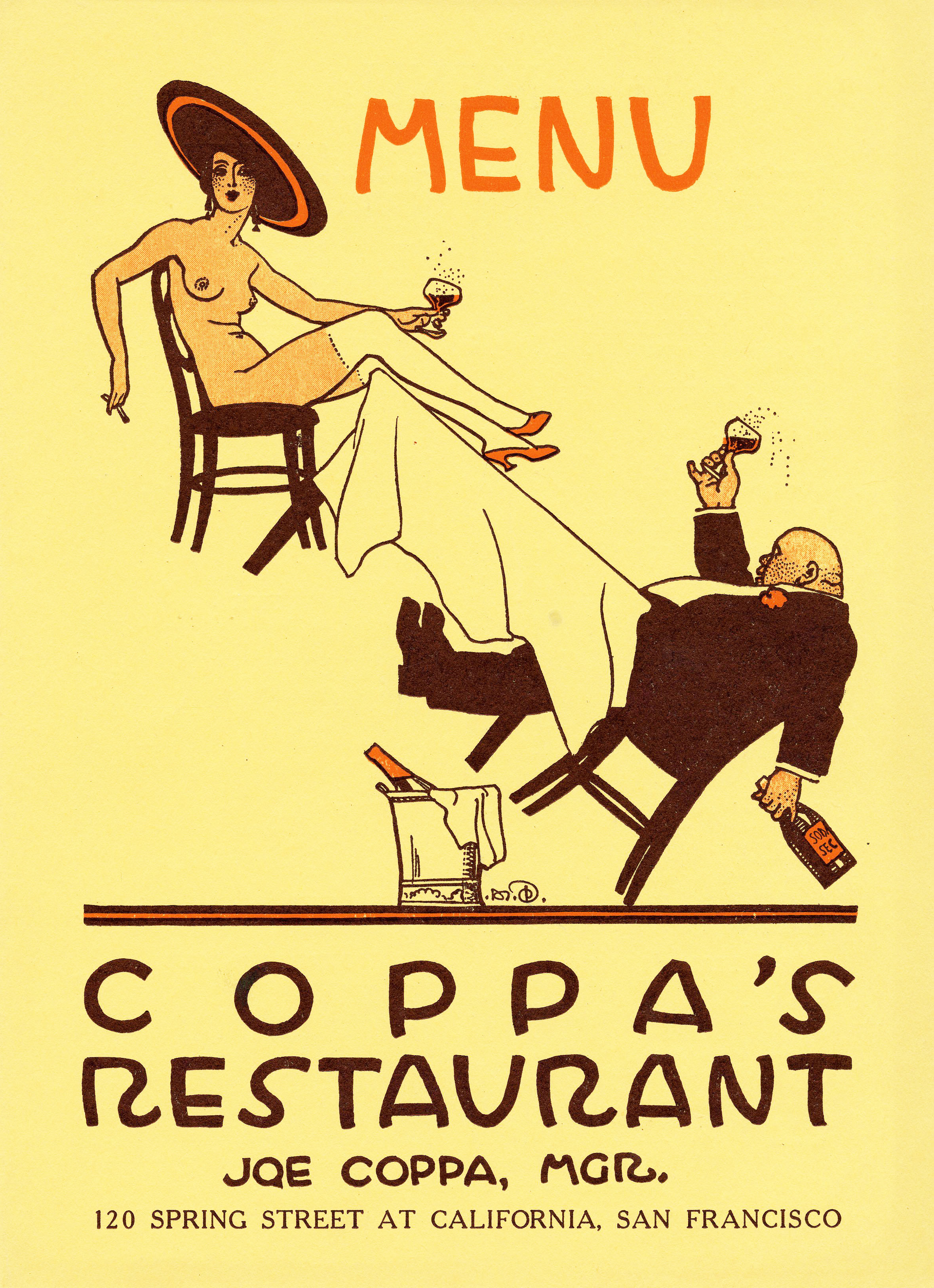 The original Coppa's apparently opened prior to the great earthquake and then moved around. The Spring St locaction opened in the early 1930's. It was a favorite of Maynard Dixon and many other SF artists .Source: Coppa%e2%80%99s Restaurant, 120 Spring San Francisco&pg=PA189#v=onepage&q=old Coppa%e2%80%99s Restaurant, 120 Spring San Francisco&f=true" Repository: California Historical Society Digital object ID: CHS2013.1413 Call number: MENU COL Collection: California menu collection Date: undated Preferred citation: Menu, Coppa’s Restaurant, San Francisco, California menu collection, courtesy, California Historical Society, CHS2013.1413.jpg. Online finding aid